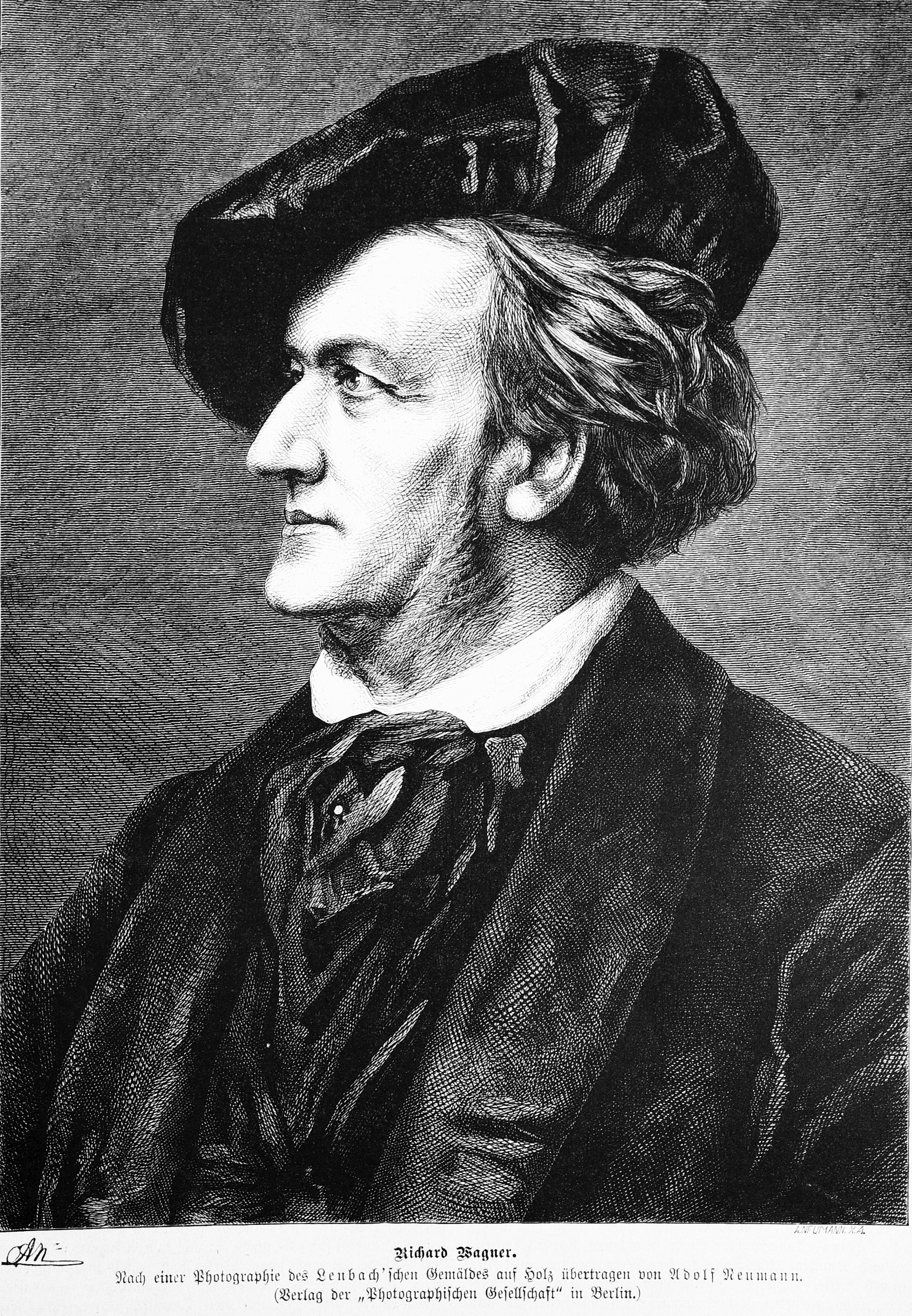 caption: "Richard Wagner.Nach einer Photographie des Lenbachschen Gemäldes auf Holz übertragen von Adolf Neumann.(Verlag der „Photographischen Gesellschaft" in Berlin.)"